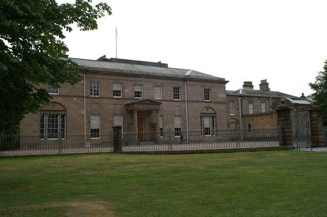 Tatton Hall. This side of the house can be seen in the episode "The Greek Interpreter" (1985) from the tv series "The Adventures of Sherlock Holmes", in the film "The Hound of the Baskervilles" (1988), in the tv episodes "Shoscombe Old Place" (1991), "The Master Blackmailer" (1992) and "The Eligible Bachelor" (1993) from the series The Case-Book of Sherlock Holmes and in "The Three Gables" (1994) from The Memoirs of Sherlock Holmes, all starring Jeremy Brett as Sherlock Holmes.